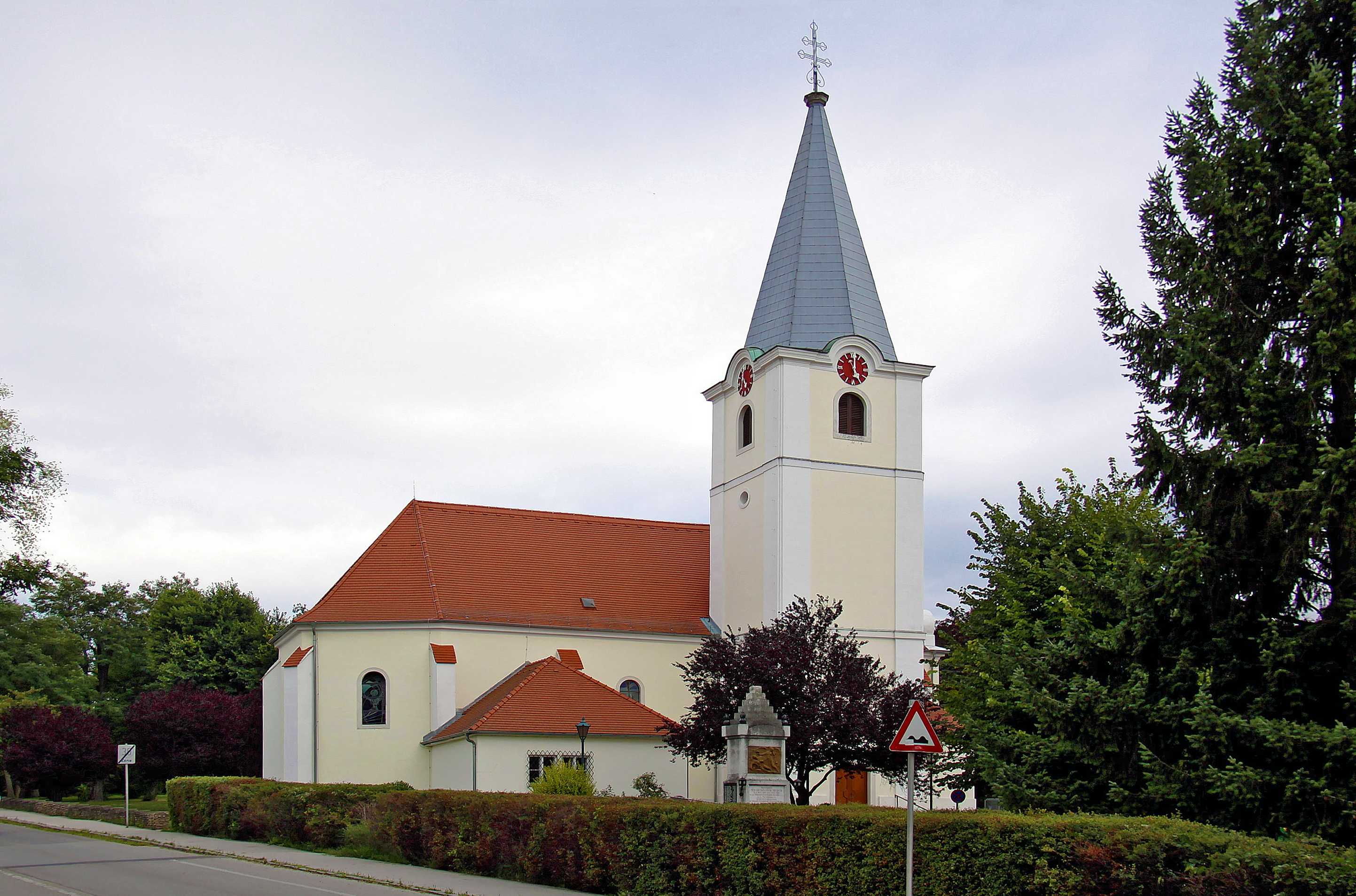 Parish church „Mariae Geburt“ - Neudörfl Object location47° 47′ 41.5″ N, 16° 17′ 56.08″ E